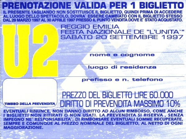 Ticket voucher for the U2 PopMart tour concert in Reggio Emilia on Sep 20, 1997.